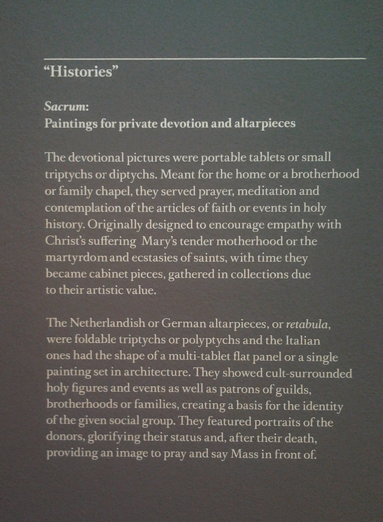 Introduction label in the Gallery of Old European Painting of the National Museum in Warsaw.